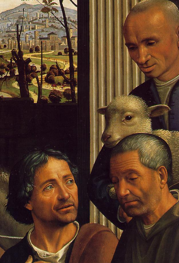 GHIRLANDAIO, Domenico Adoration of the Shepherds Panel, 167 x 167 cm Santa Trinità, Florence